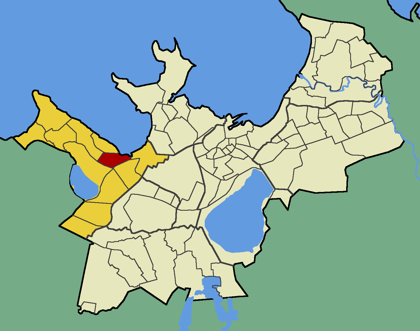 Map of Tallinn (Estonia) with borders of the quarters, Haabersti district and Haabersti quarter emphasised